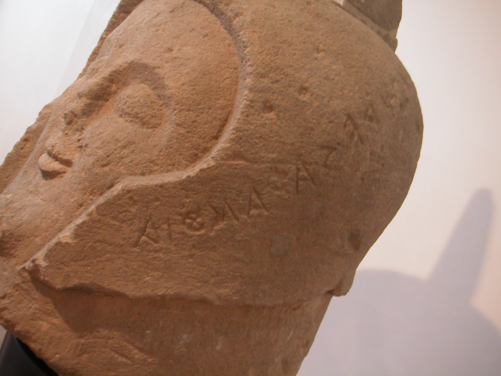 Etruscan cippus (grave marker) in the form of a warrior head, found in the necropolis Crocifisso del Tufo outside Orvieto, Italy. This is a side view showing the inscription in the Old Italic alphabet.